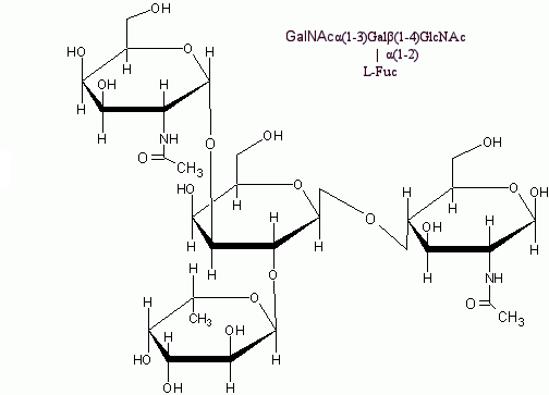 chemical structure of A blood group